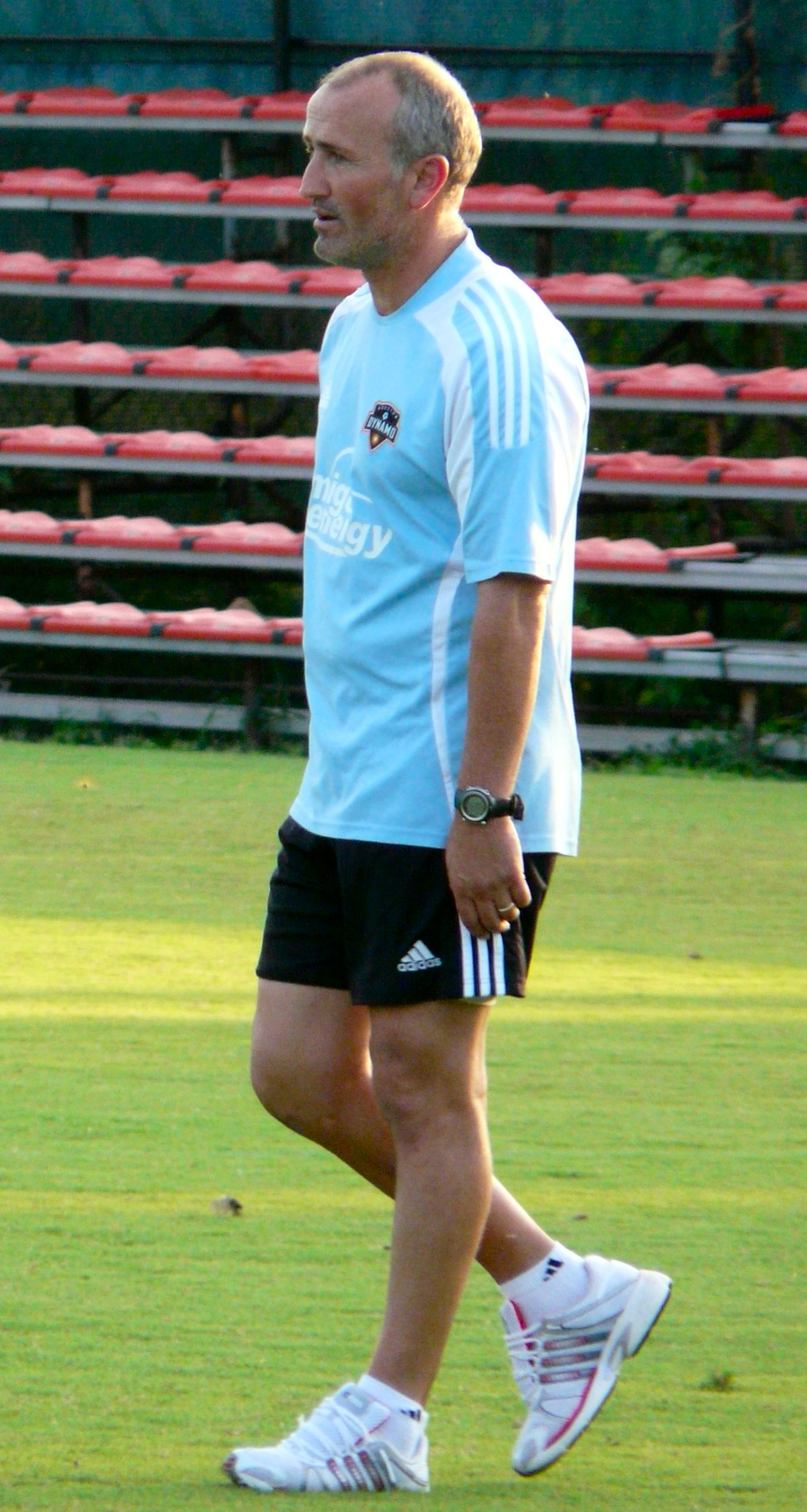 Dominic Kinnear coaches a Houston Dynamo practice at RFK Auxiliary Field, Washington, DC, in advance of the Major League Soccer (MLS) match to be played against D.C. United the next day.